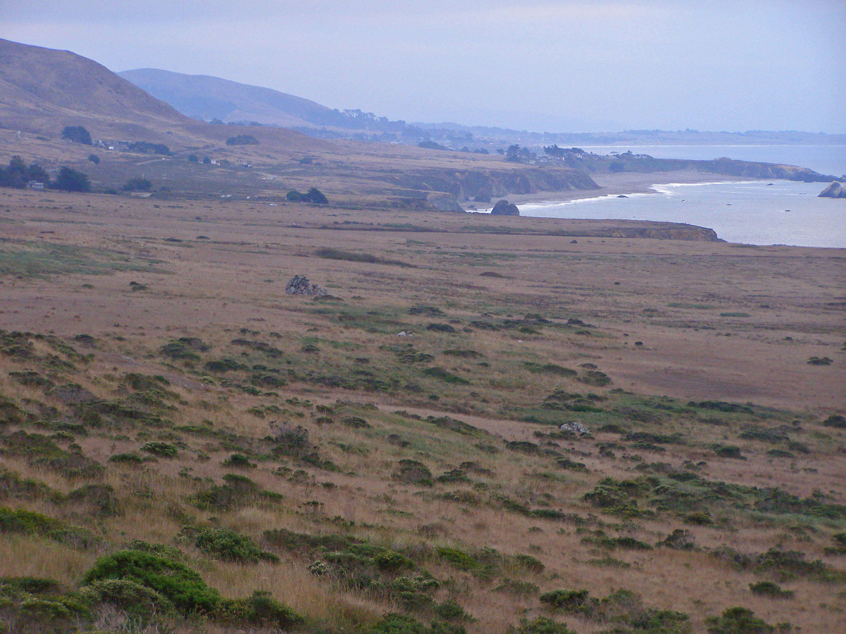 photographer: self